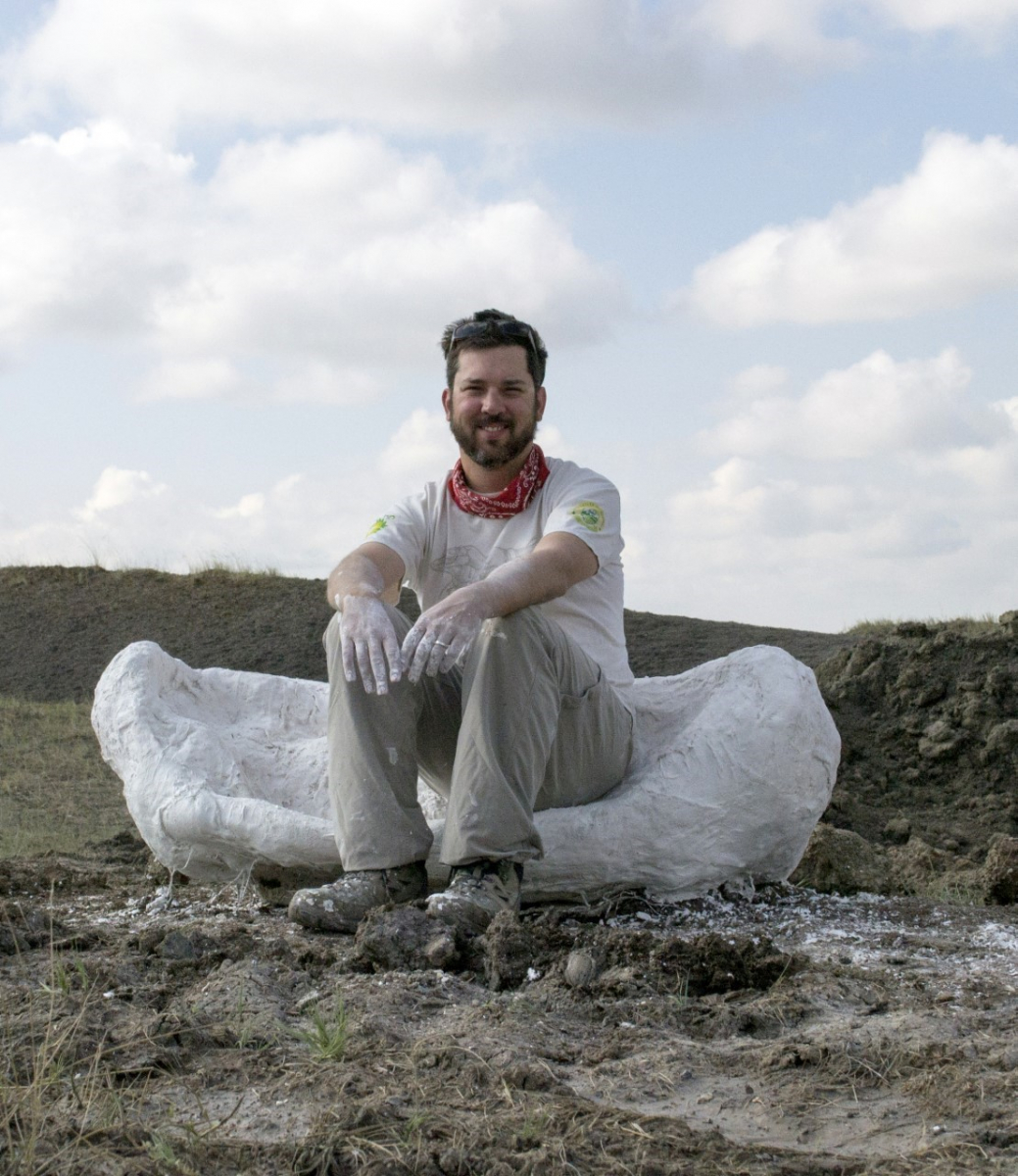 Photograph of paleontologist David C. Evans during fieldwork.